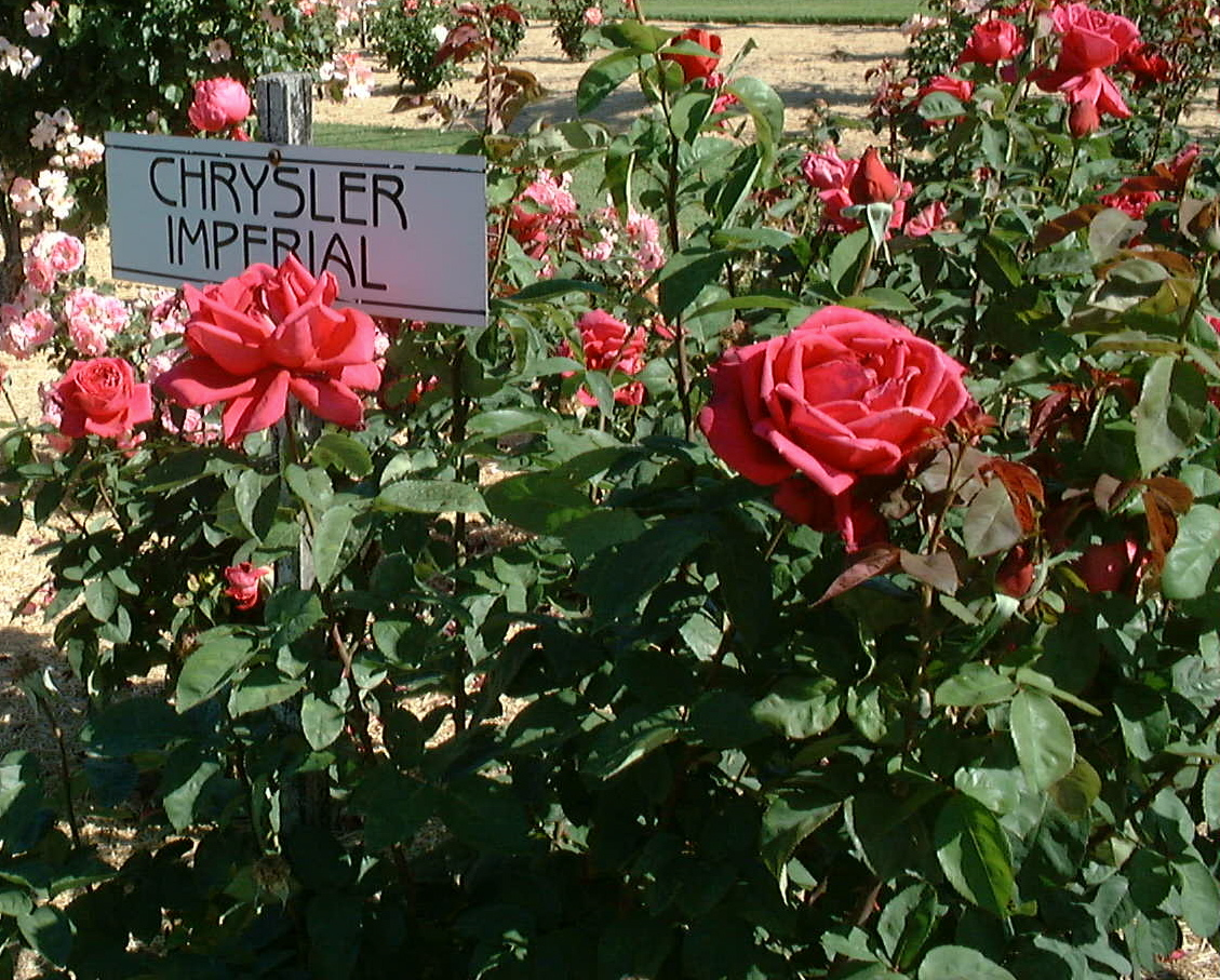 Rosa 'Chrysler Imperial' Description: Chrysler Imperial hybrid tea, Dural, NSW, Australia Source: Image taken by Wilfred S Pau Date: OCT 2002 Author: Wilfred S Pau Permission: released to the public domain